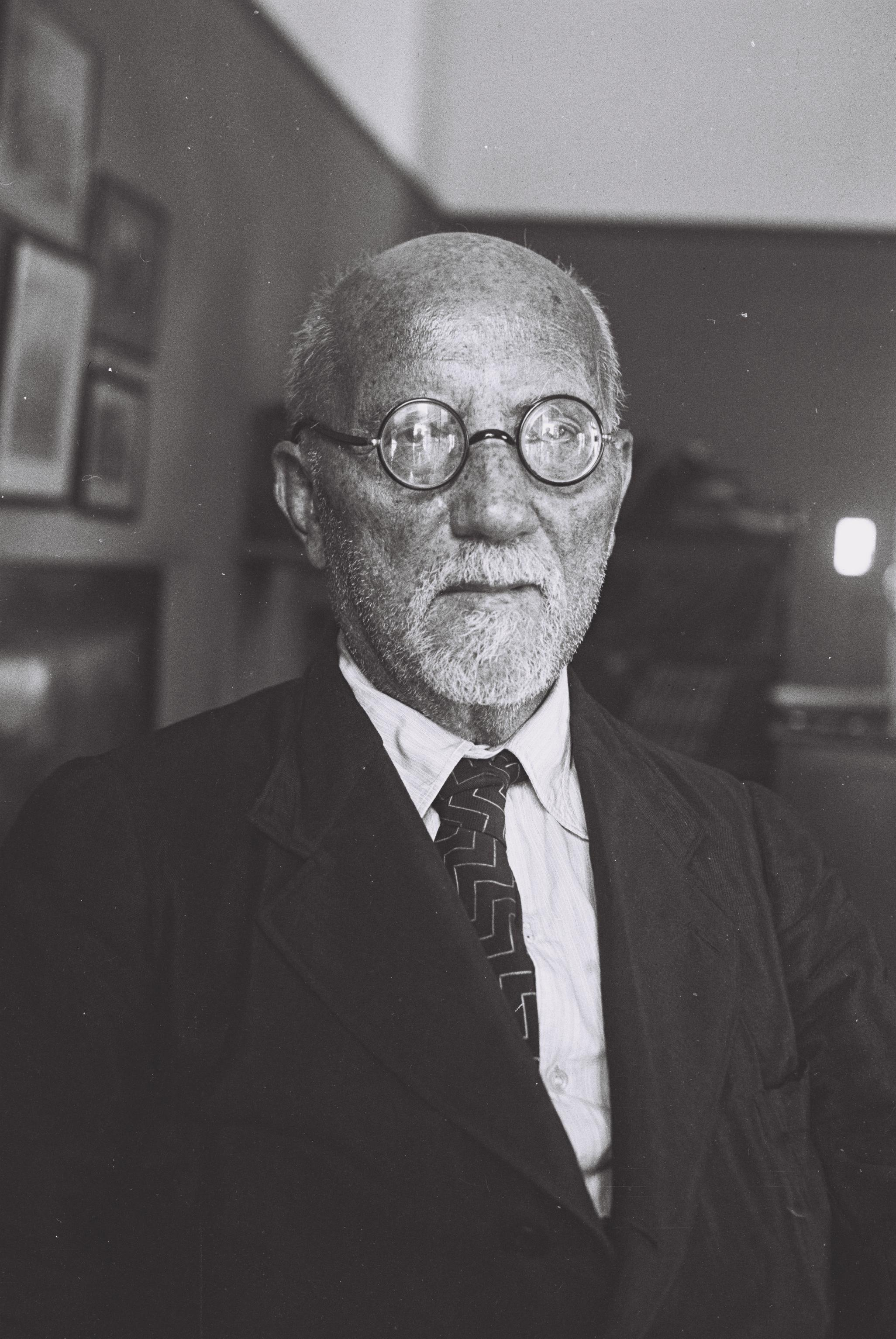 HEBREW WRITER YEHOSHUA H. RAVNITZKY. הסופר העברי, יהושע רבניצקי.